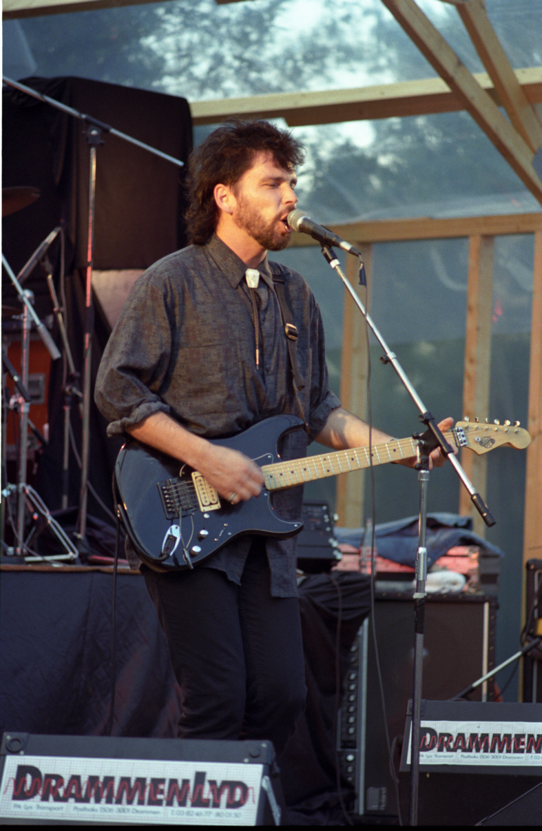 Rob Frazier. Drammenlyd, Norway